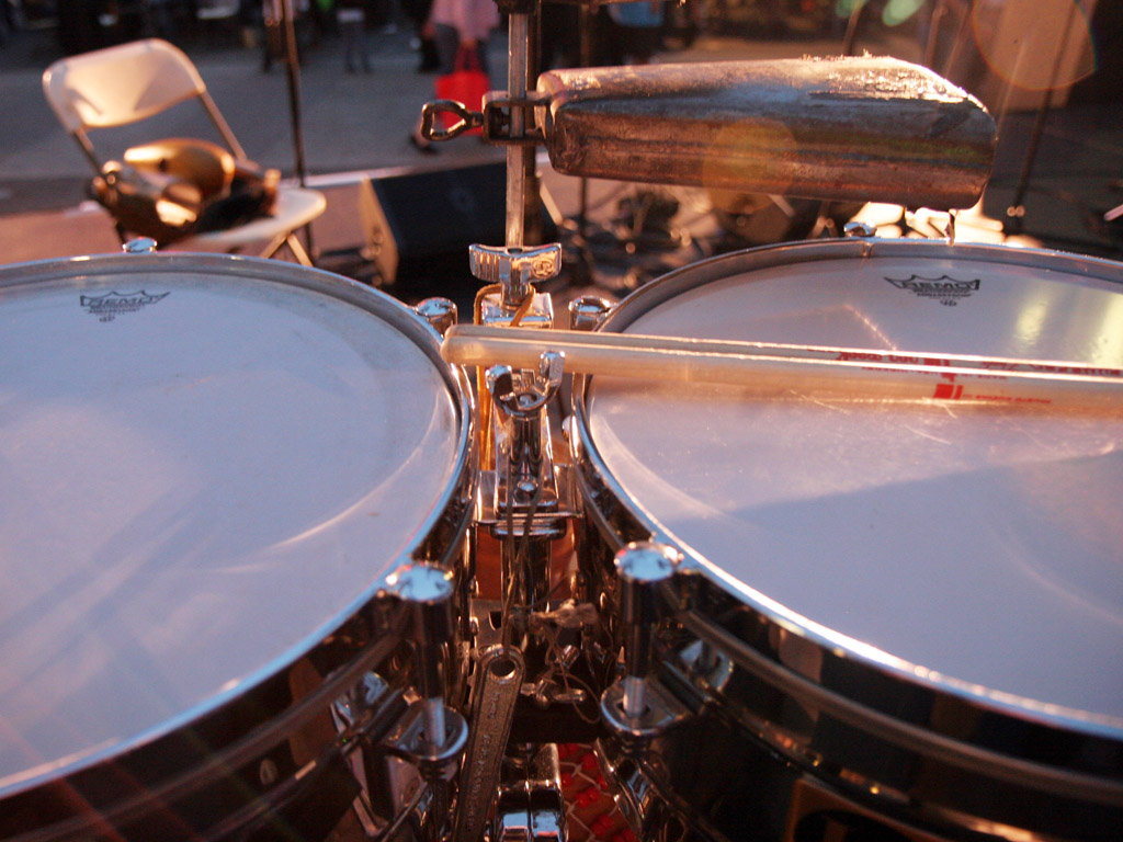 You may use these photos for any artistic purpose, personal or commercial. My sets: - Get hi-res version at